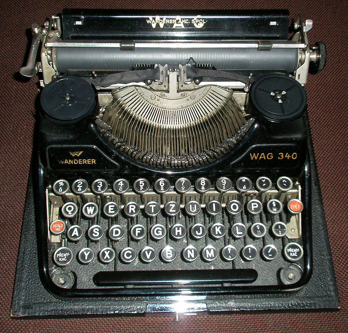 Czech edition of German typewriter Wanderer WAG 340